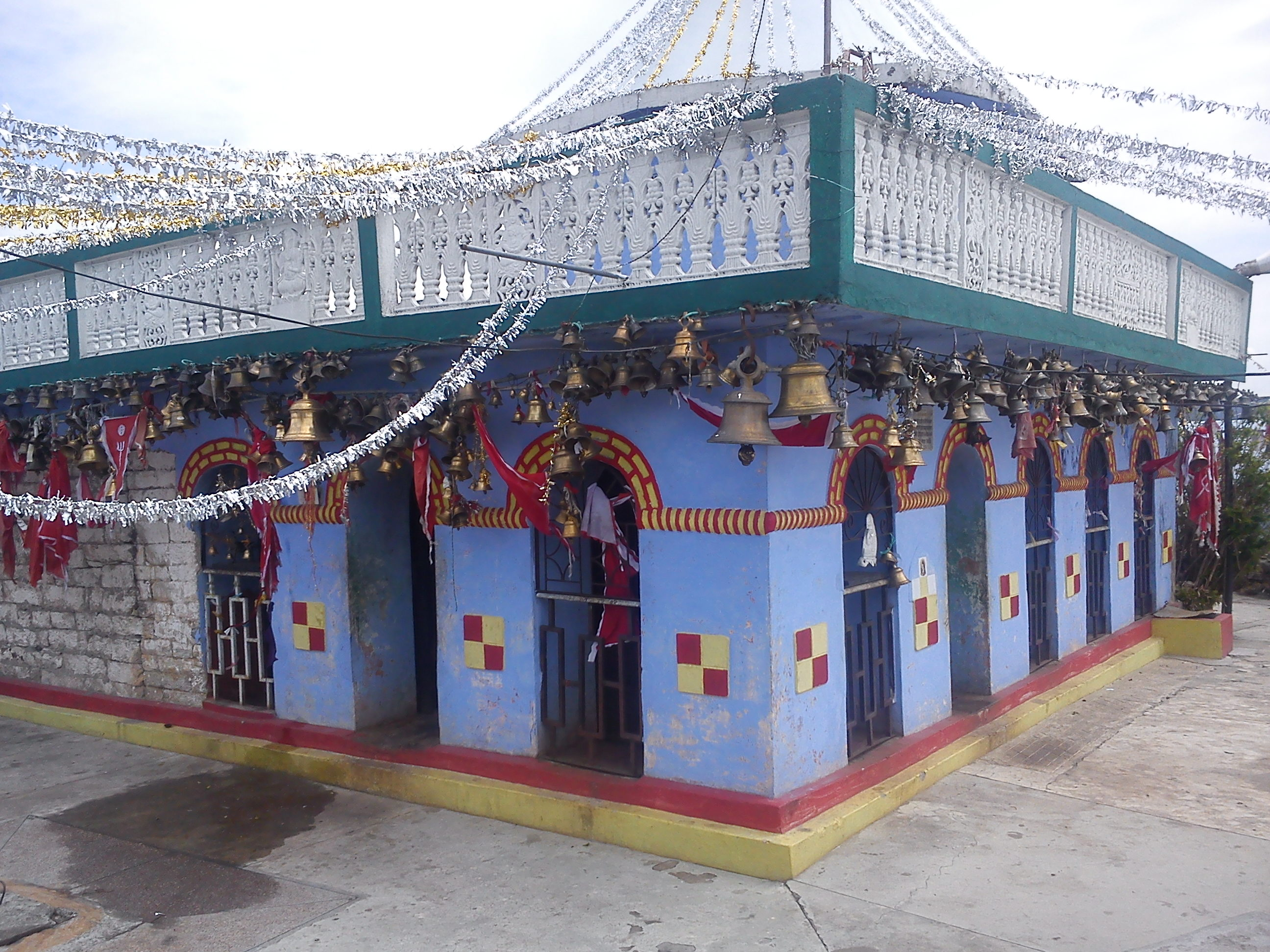 This is Sherakot Temple of Didihat